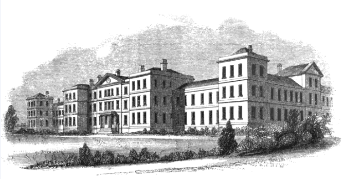 Engraving of Northamptonshire County General Lunatic Asylum from Wetton's guide-book to Northampton and it vicinity by Edward Petty